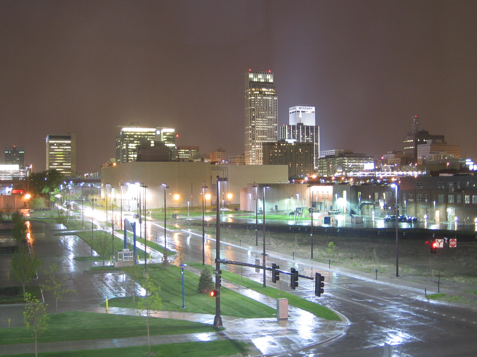 Time-lapse photo of skyline of Omaha, Nebraska at night during rainfall.